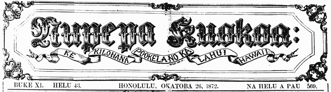 The masthead for the newspaper Ka Nupepa Kuokoa Masthead from1872.